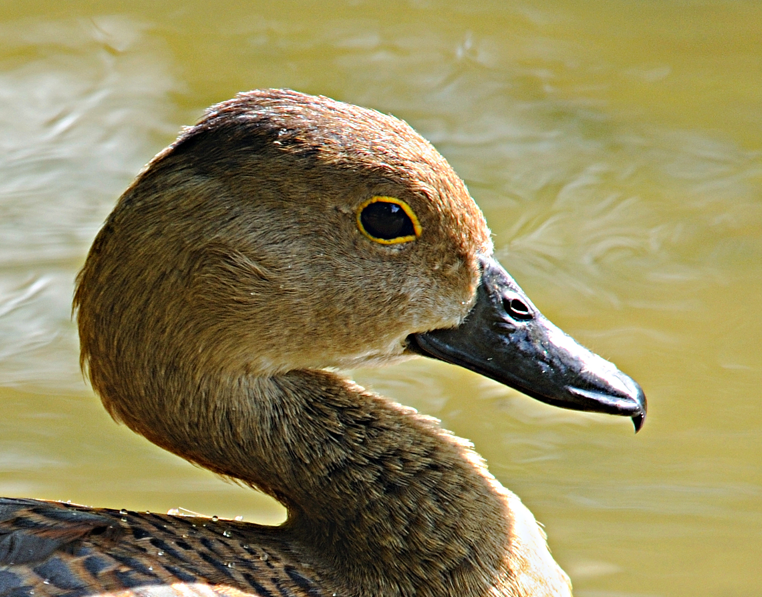 Cropped version of a Lesser Whistling Duck (Dendrocygna javanica) swimming in Singapore.